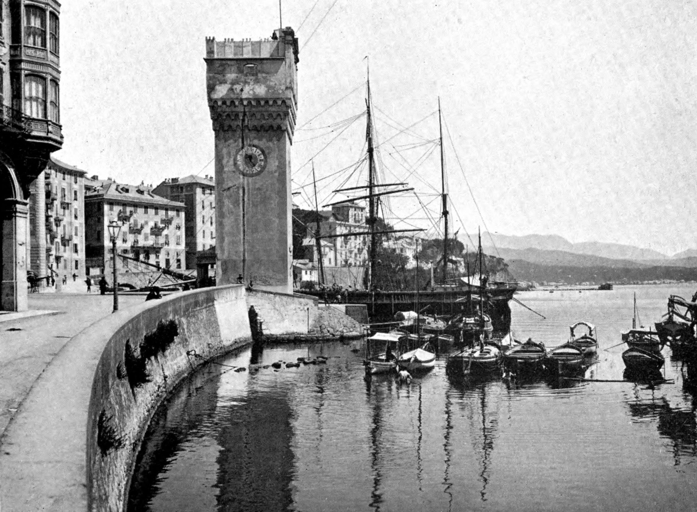 Image from a scanned version of the book "A Book of the Riviera" by Sabine Baring-Gould from Image has been cropped and sepia tone removed.